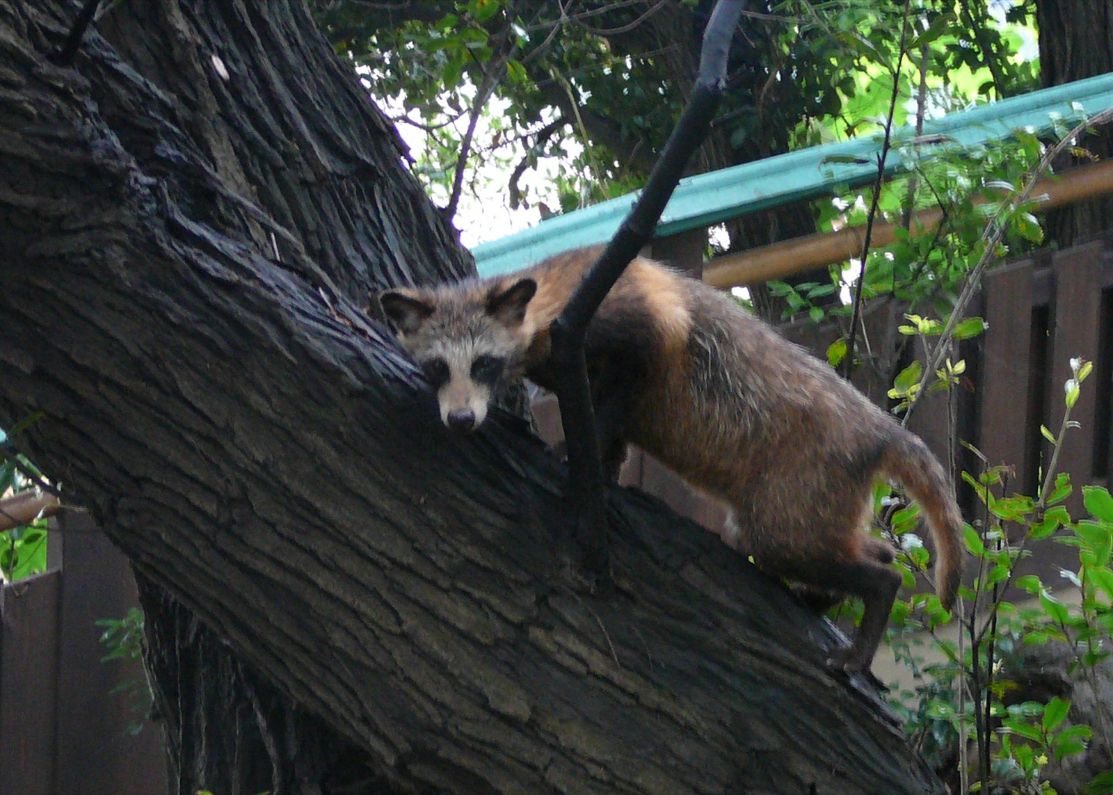 Tanuki climbing a tree.